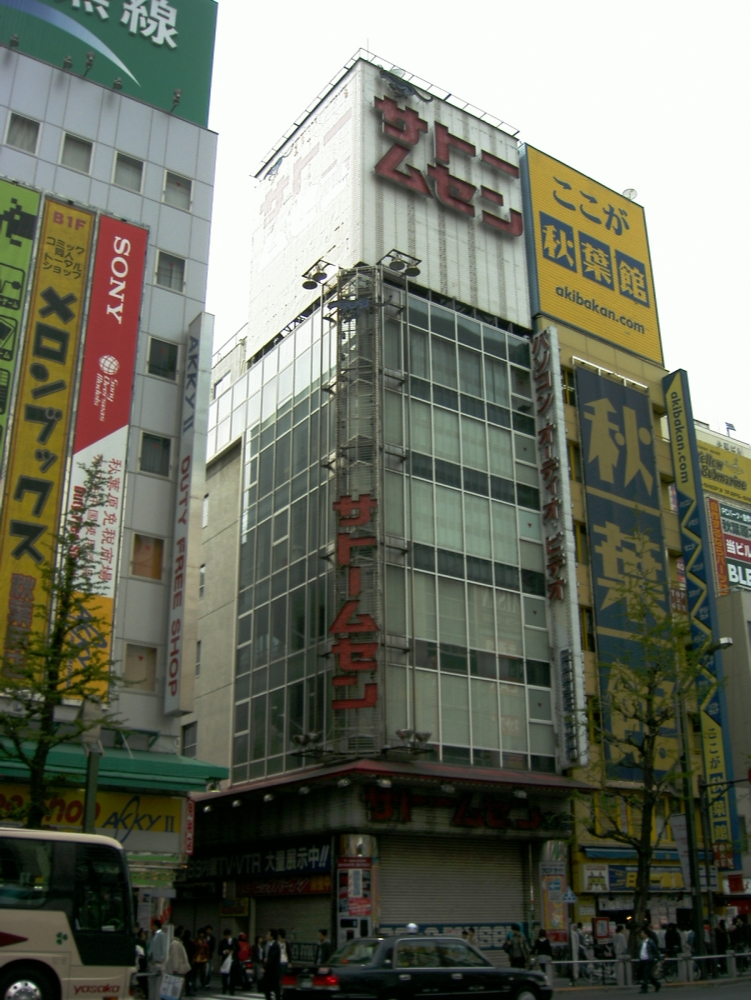 Sato Musen Electric Shop, Akihabara, Tokyo, Japan